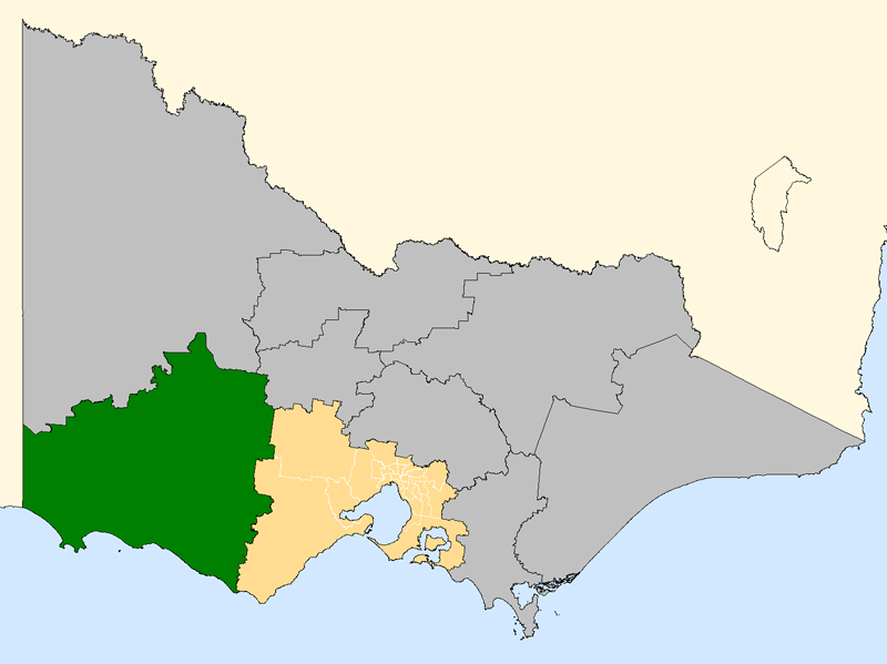 Division of Wannon 2007, with surrounding divisions